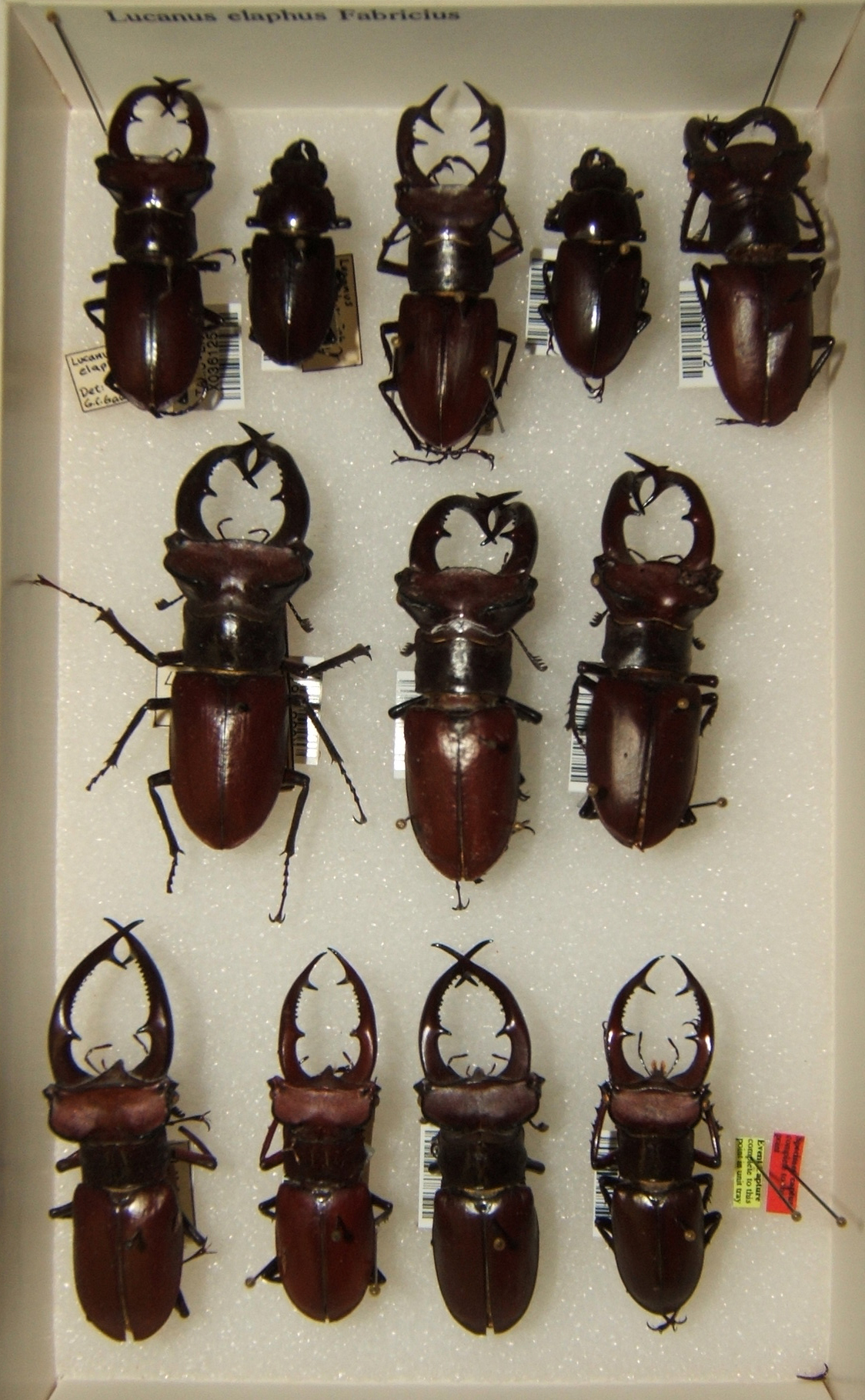 Lucanus elaphus adult taken by Shawn Hanrahan at the Texas A&M University Insect Collection in College Station, Texas.